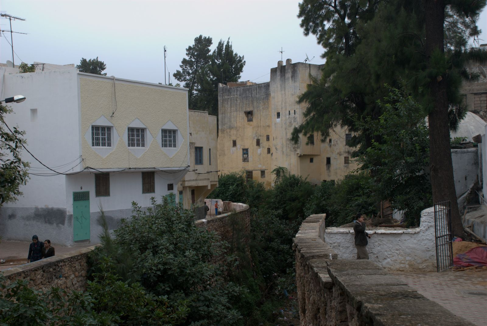 Sefrou, Morocco, river in old town